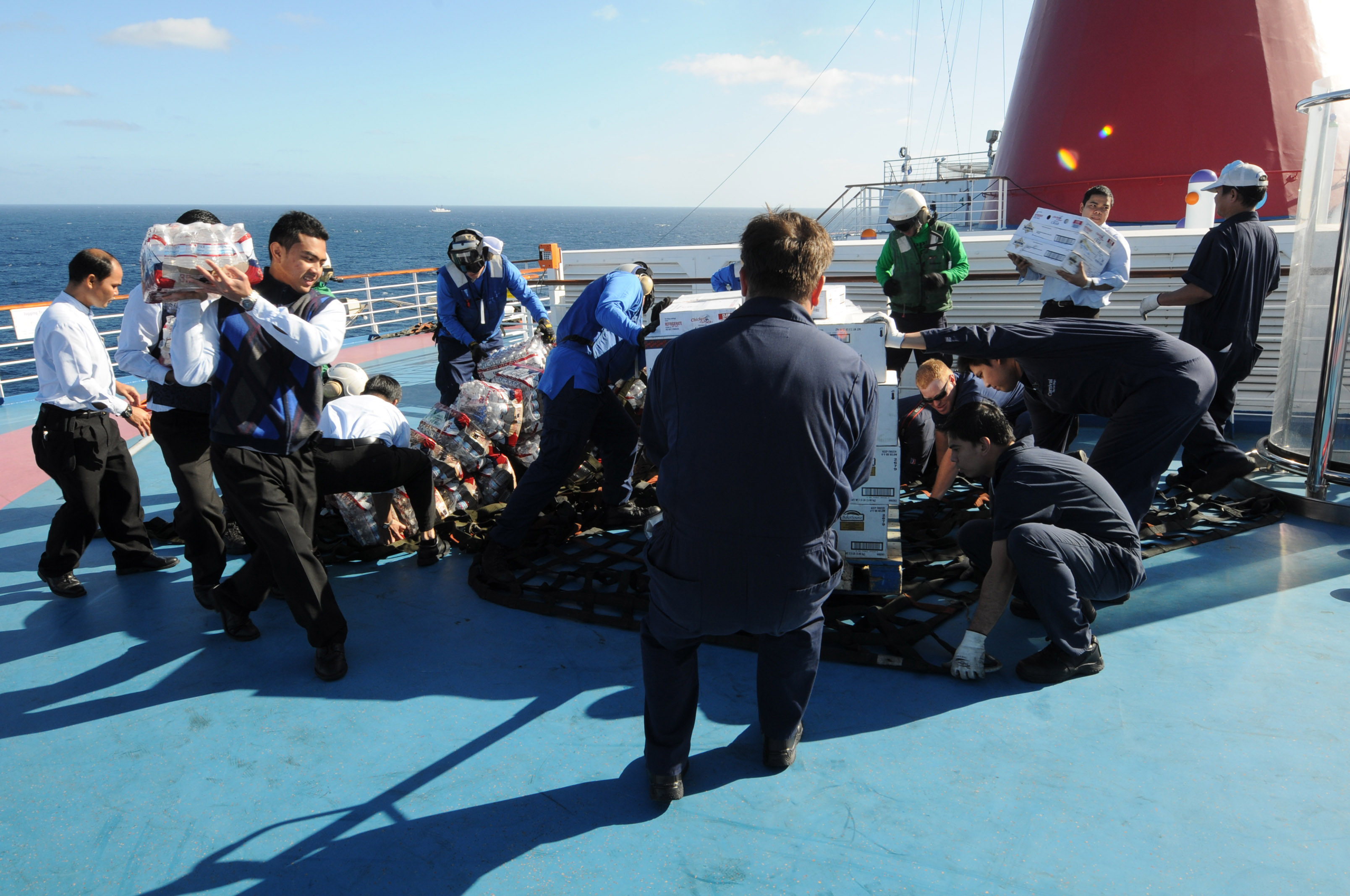 PACIFIC OCEAN (Nov. 9, 2010) Sailors assigned to the aircraft carrier USS Ronald Reagan (CVN 76) help crew members of Carnival cruise ship C/V Splendor unload food and water sent from Ronald Reagan. Ronald Reagan was diverted from its training maneuvers at the direction of Commander, U.S. 3rd Fleet, and at the request of the U.S. Coast Guard, to a position near the Carnival cruise ship C/V Splendor. Ronald Reagan is facilitating the delivery of 4,500 pounds of supplies to CV Splendor after the cruise ship became stranded 150 nautical miles southwest of San Diego early Monday. (U.S. Navy photo by Mass Communication Specialist 3rd Class Kevin Gray/Released)